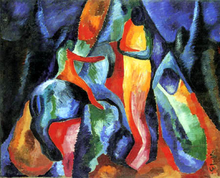 Reiter mit zwei Figuren